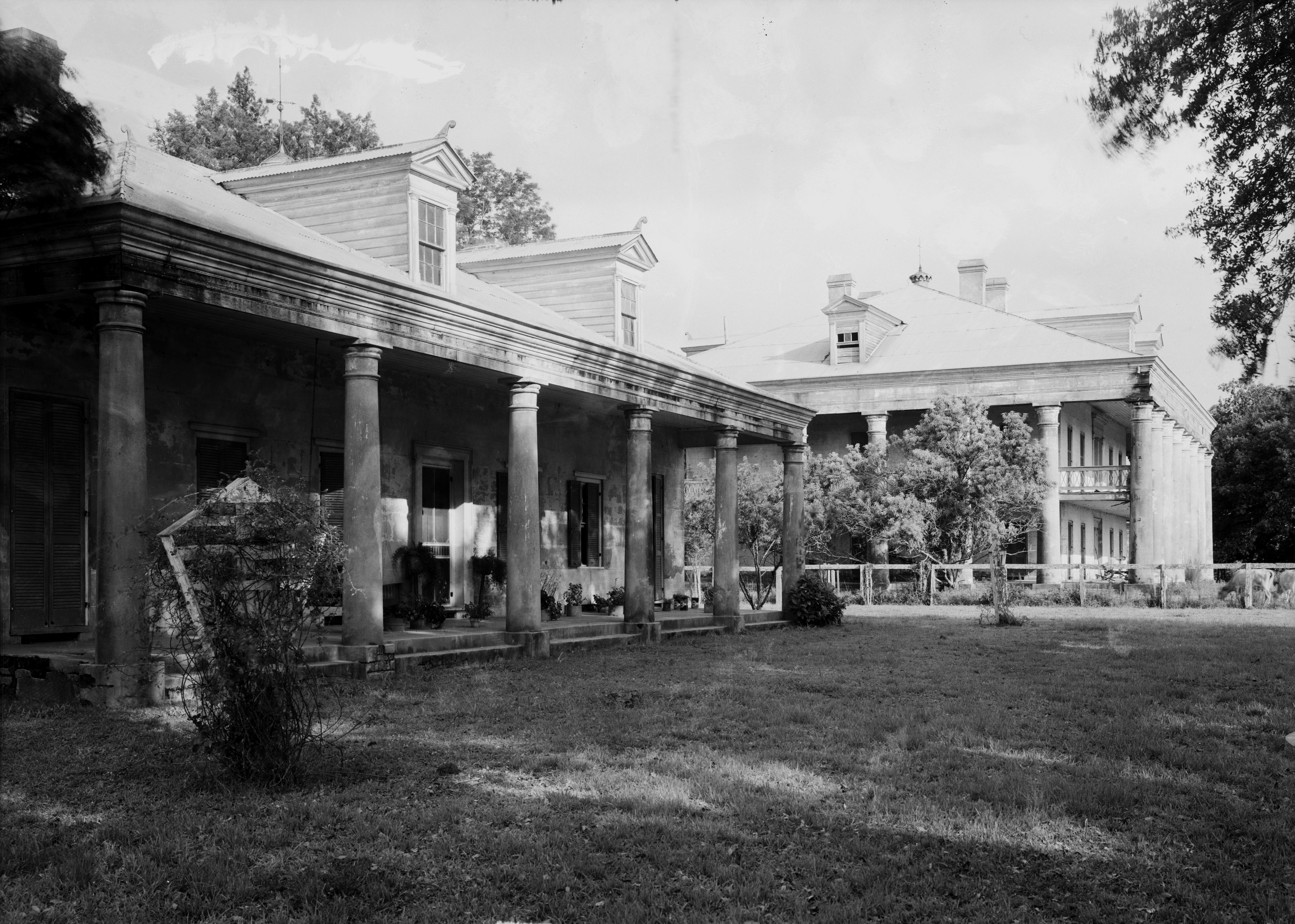 Uncle Sam Plantation, Convent vic., St. James Parish, Louisiana. From the Library of Congress' Carnegie Survey of the Architecture of the South.